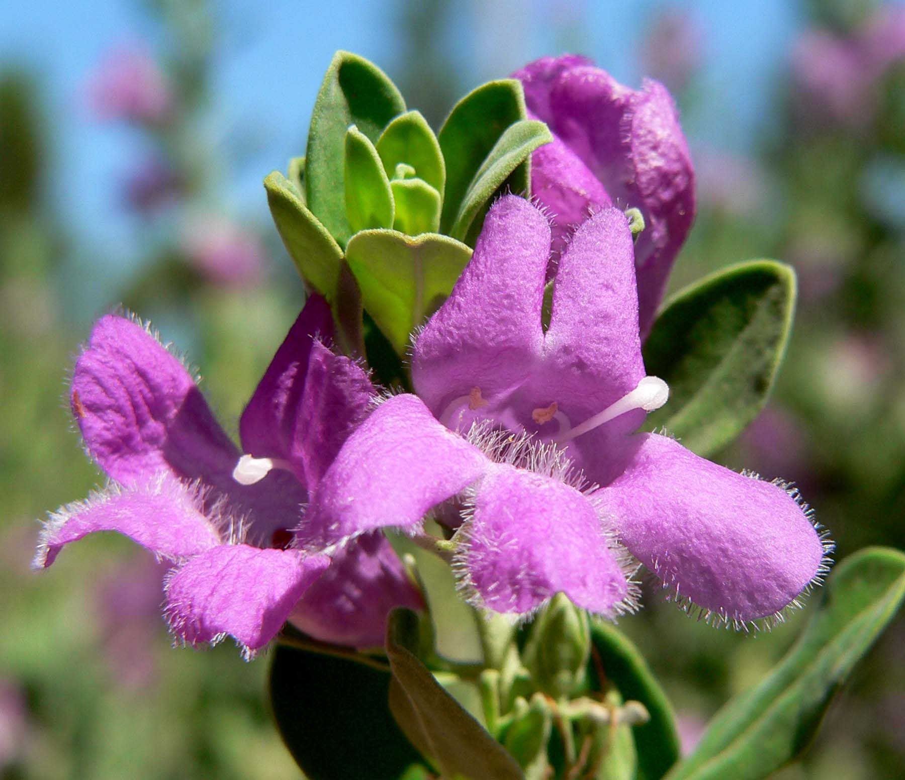 Photo of Leucophyllum frutescens 'Green Cloud' at the Springs Preserve garden in Las Vegas, Nevada